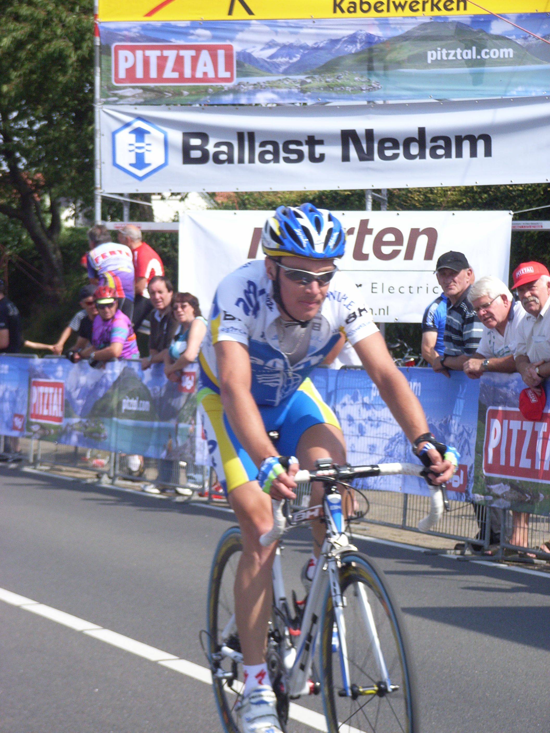 Cyclist Edaleine in the Ster Electrotour 2008